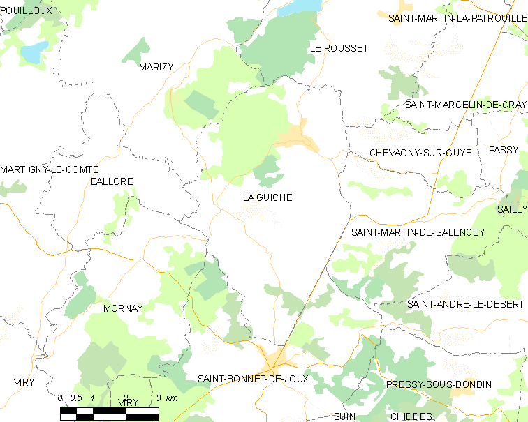 Map of French municipality